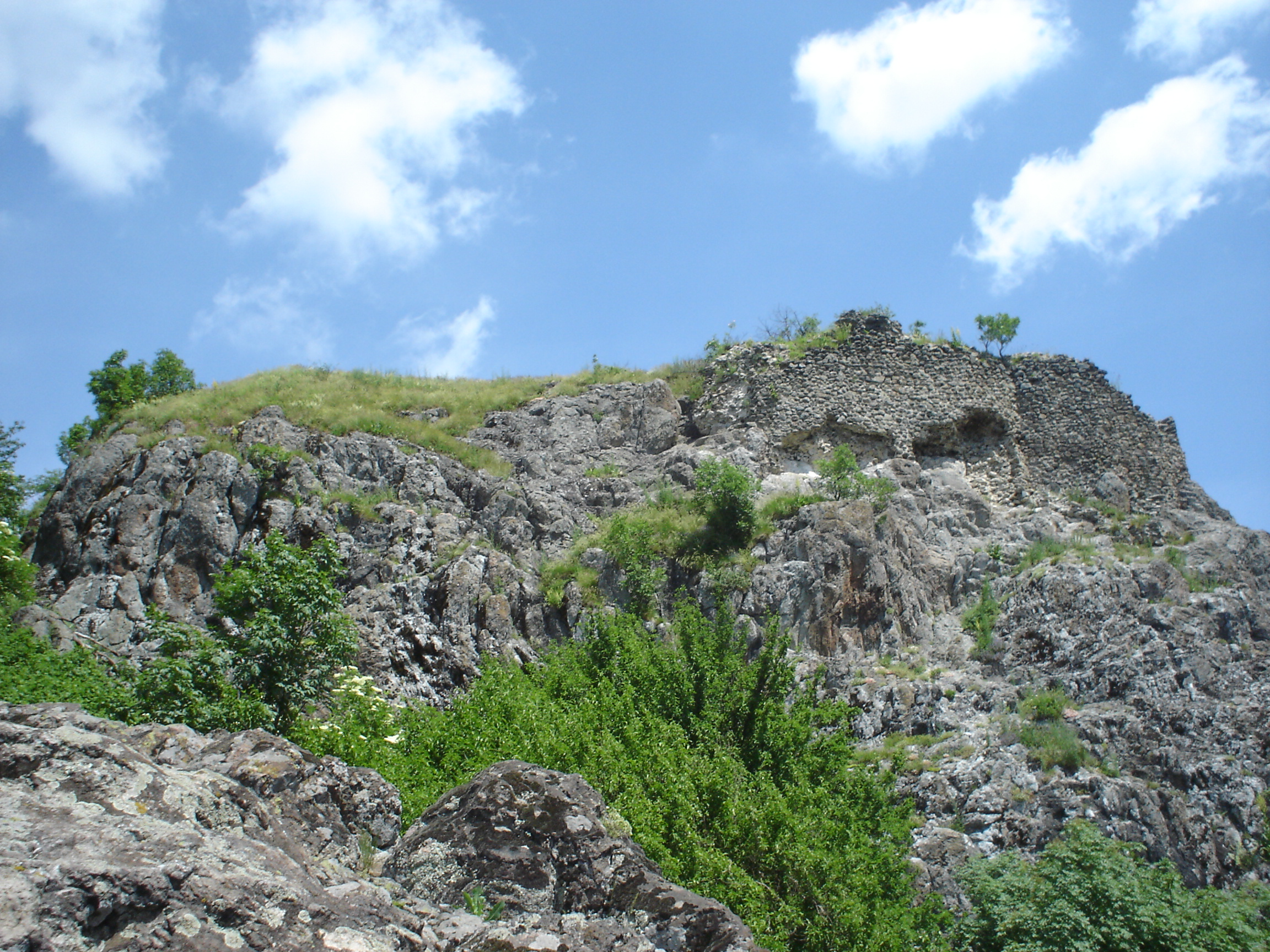 Remains of old fortress on Ostrovica